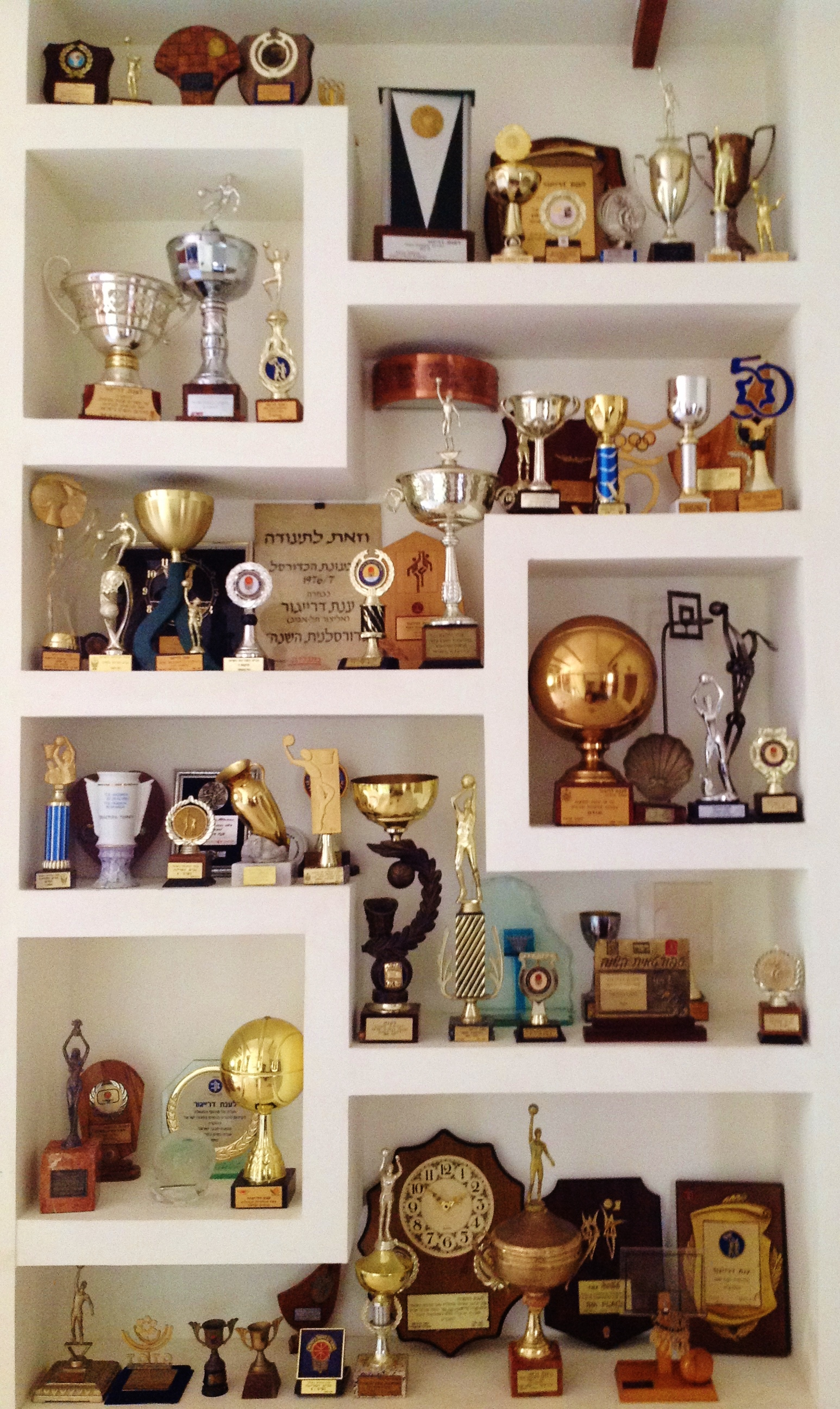 National championships awards and national cups